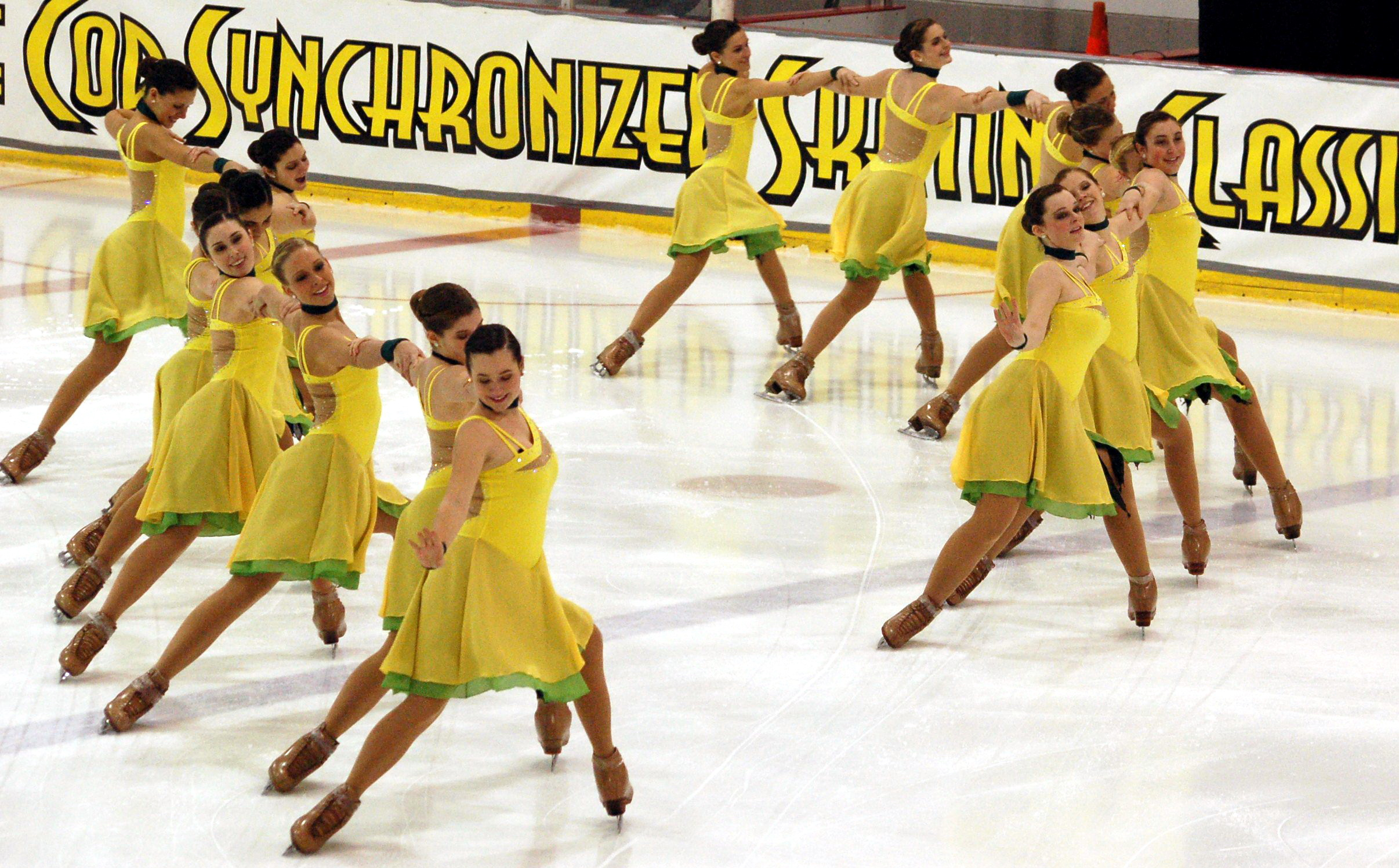 The University of Delaware Synchronized Skating Team's Junior-level team at the 2006 cape cod classic.